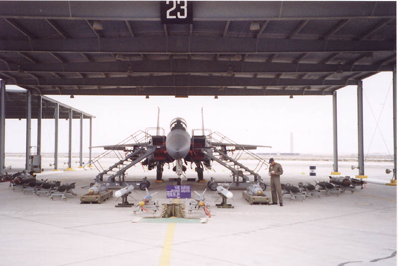 Boeing F-15S Eagle, the strike fighter of the RSAF